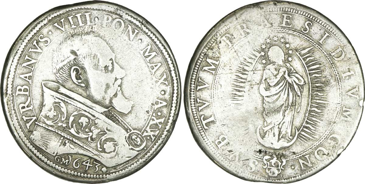 1 Piastre à l'effigie d'Urbain VIII, an XX, pièce frappée en 1643